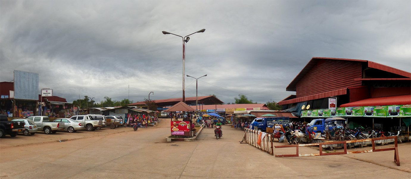 Paksan, Bolikhamsai Province, Laos.